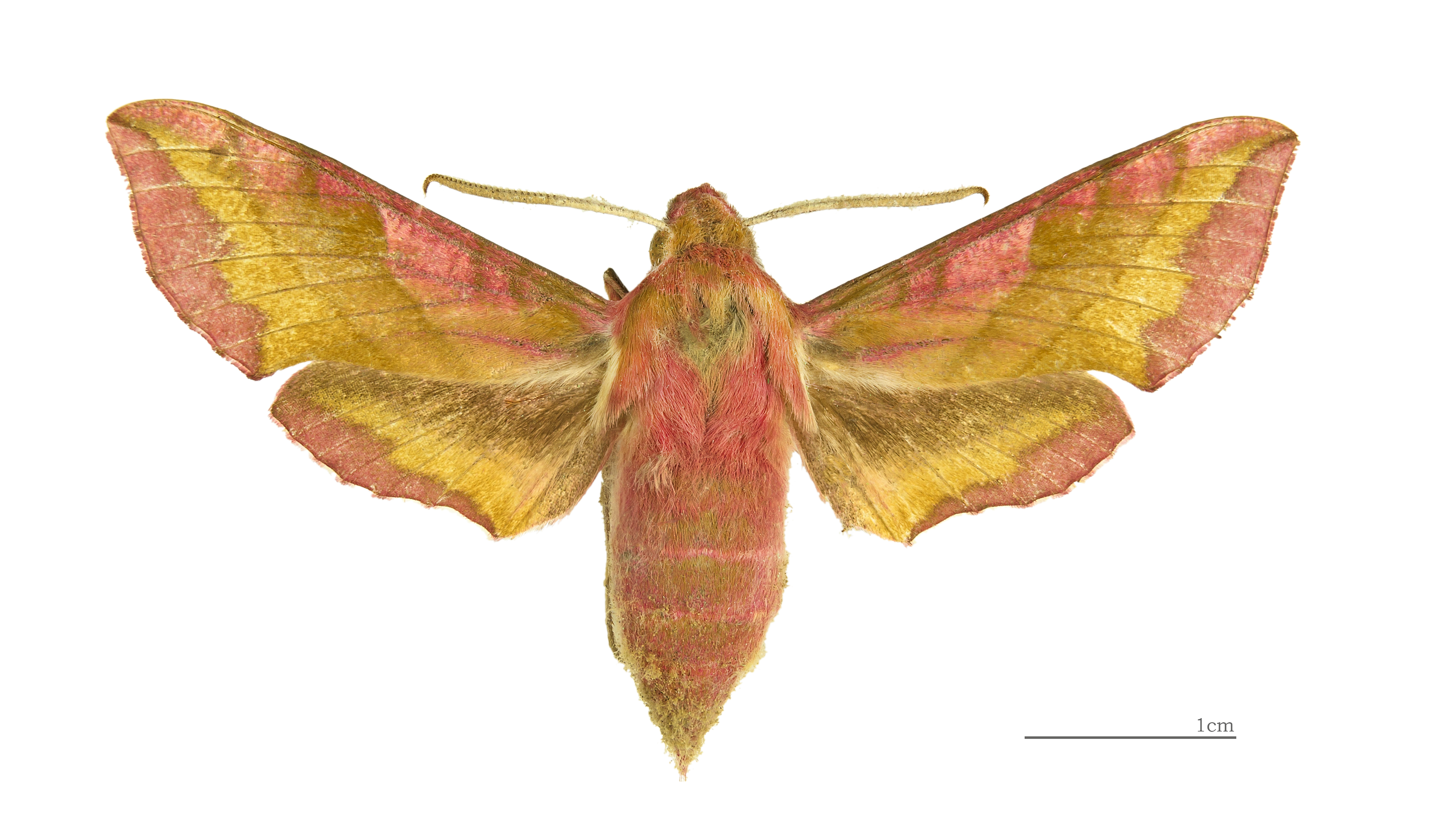 Small Elephant Hawk-moth - Dorsal side